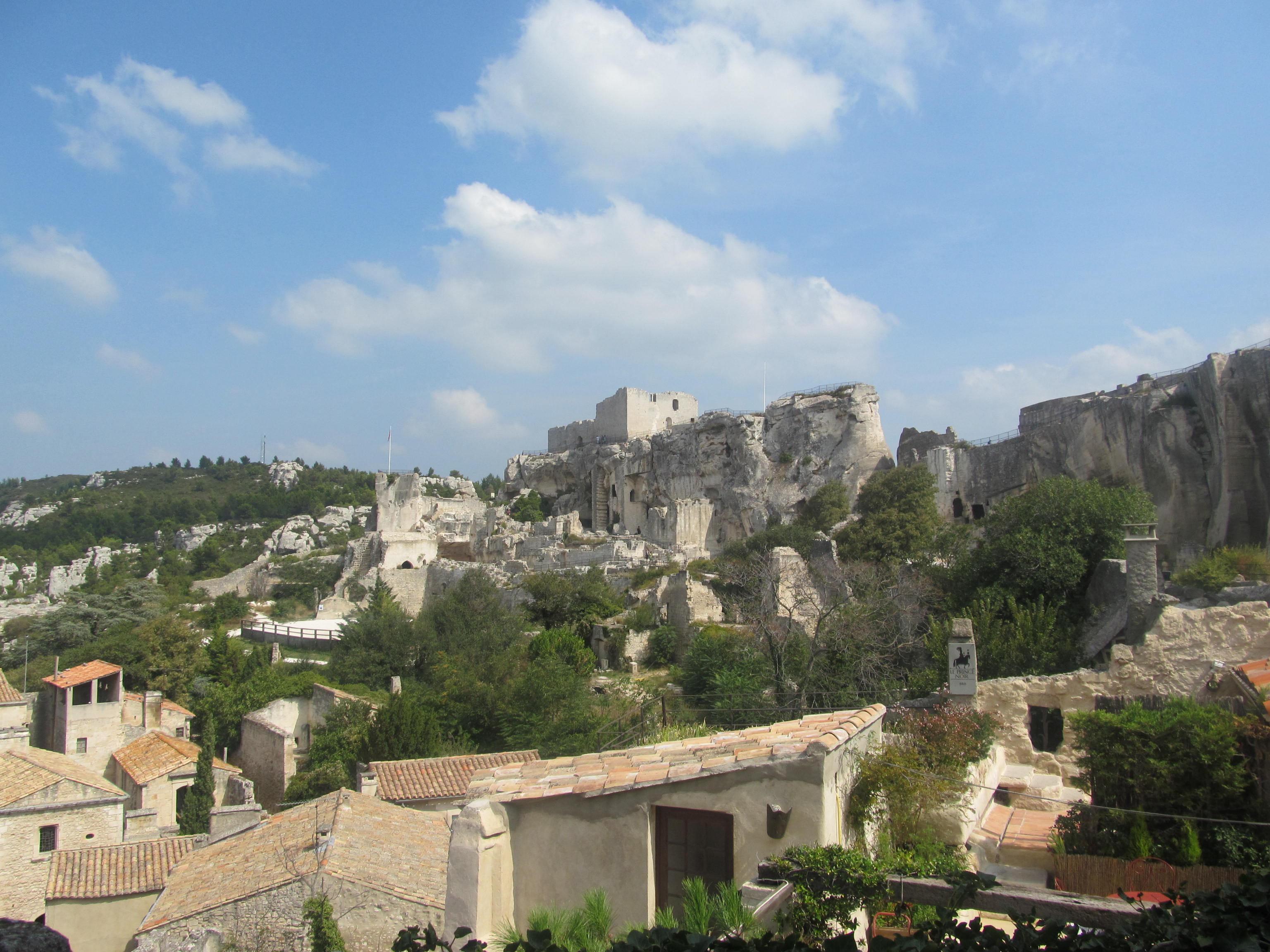 Castle from Village